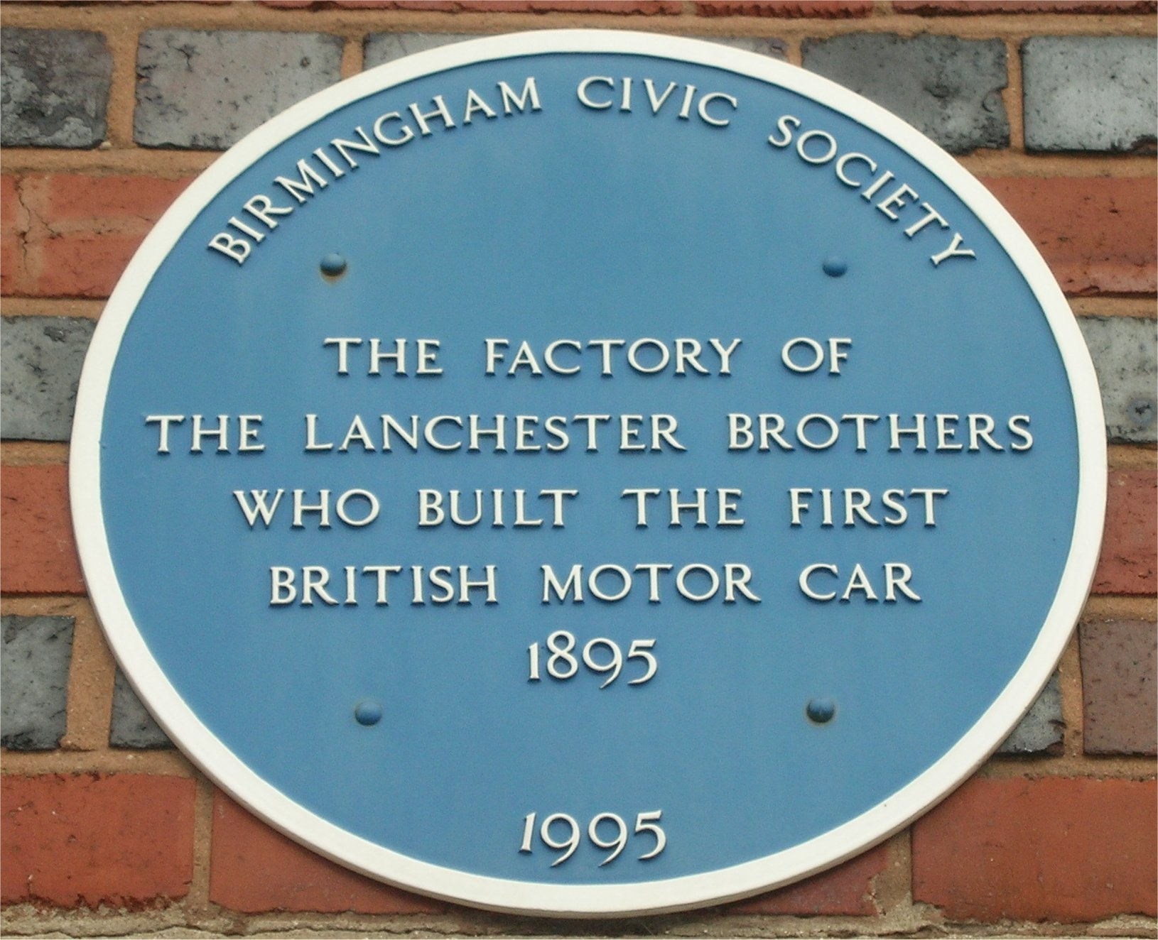 Blue plaque to the Lanchester brothers on the site of their Lanchester Motor Company factory on Montgomery Street, Sparkbrook, Birmingham, England. Photographed by me 16 October 2006. Oosoom